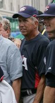 President George W. Bush poses for a photo with the U.S. Olympic men's baseball team and their manager Davey Johnson, right, prior to a practice game with the Chinese Olympic men's baseball team Monday Aug. 11, 2008, at the 2008 Summer Olympic Games in Beijing. The U.S. Olympic men's baseball team presented President Bush with a U.S. Olympic baseball hat and an autographed U.S. Olympic baseball jersey.